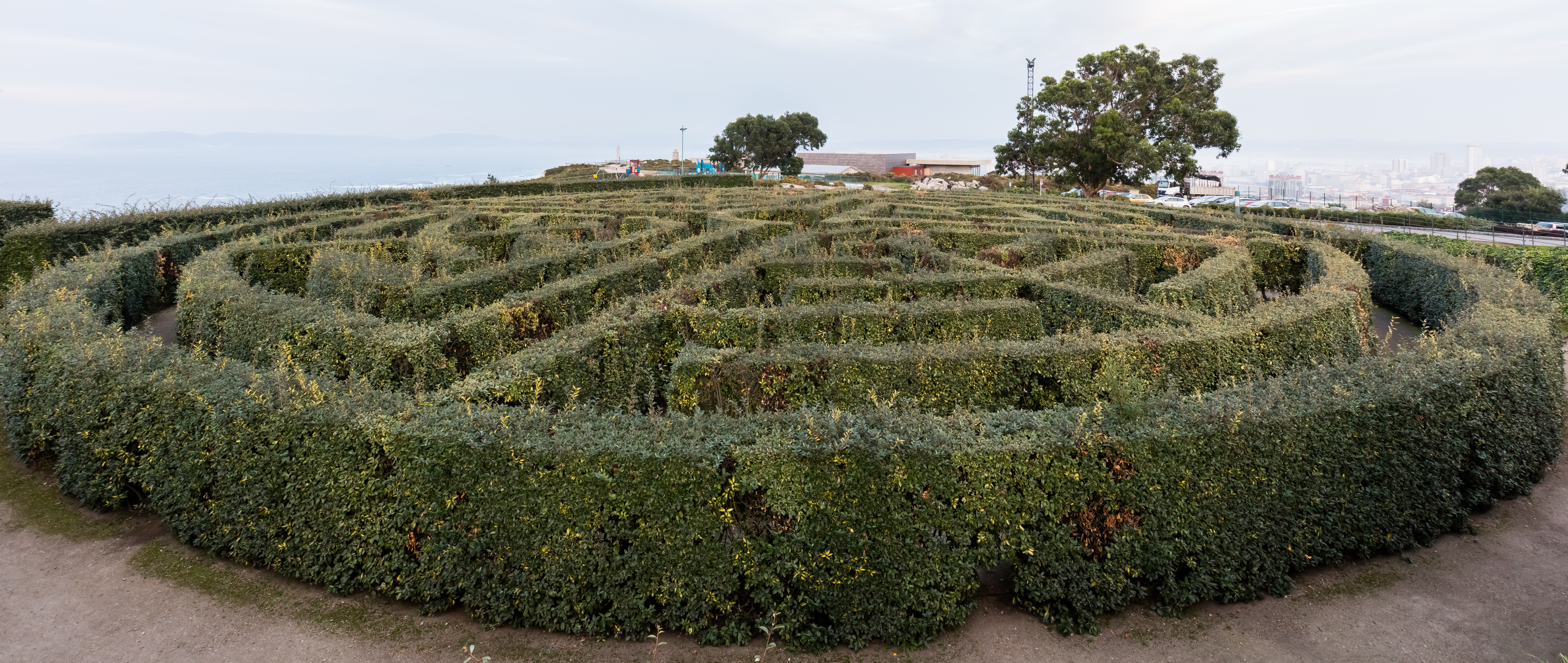 Labyrinth Garden, St Peter Park, La Coruña, Spain